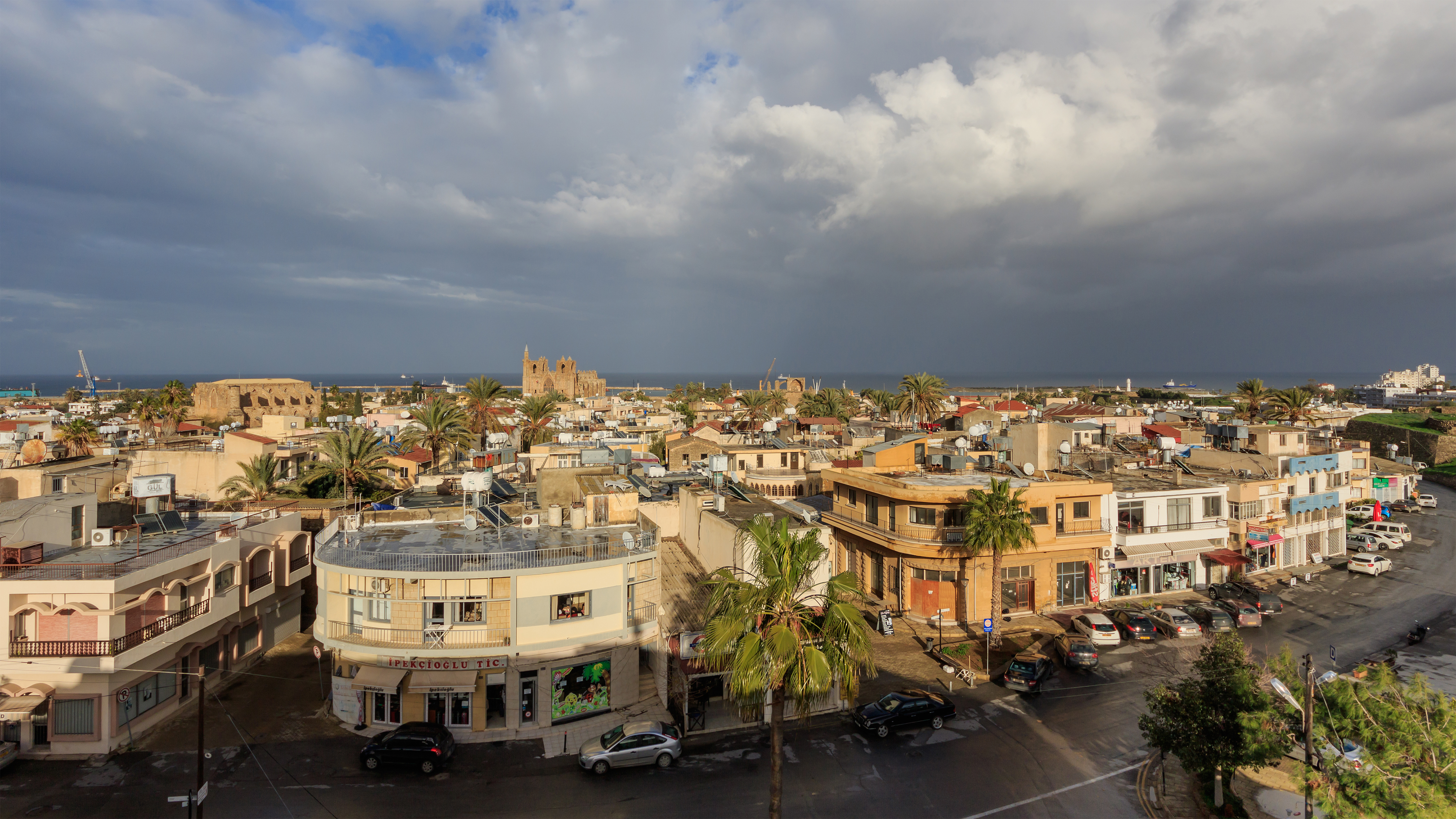 View from the ravelin of the city wall in Famagusta, Cyprus